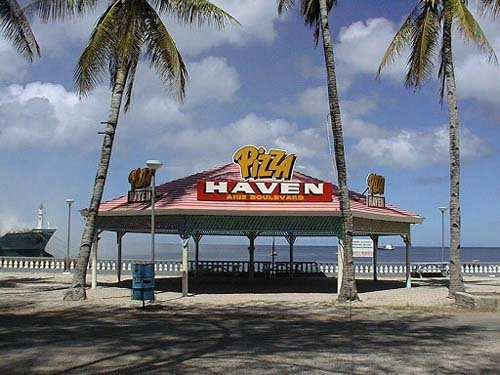 Pizza shop in Aiue Boulevard at Aiwo, Nauru